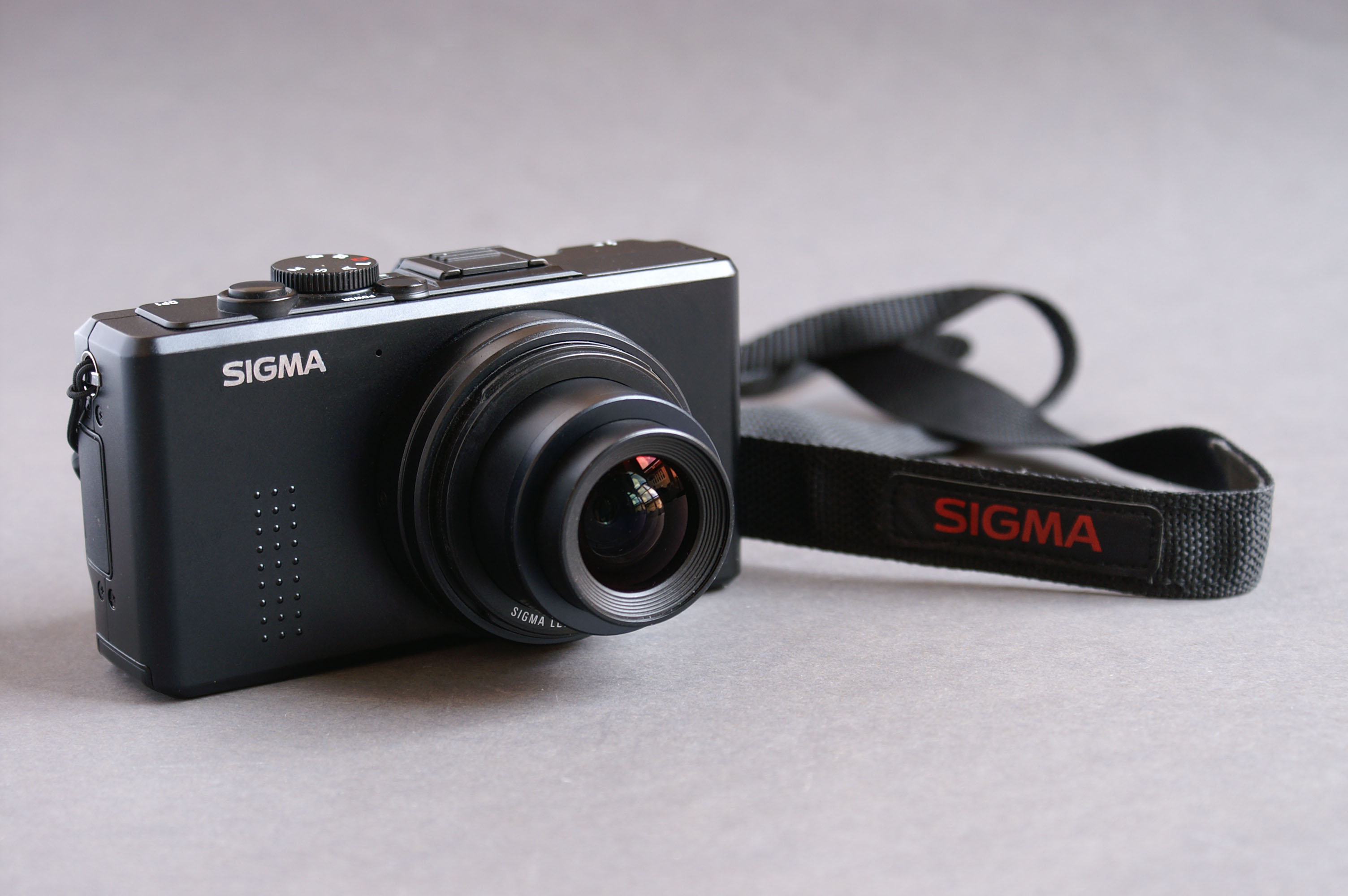 Sigma DP1 digital compact camera